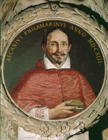 Portrait of cardinal Ascanio Filomarino by Giovan Battista Calandra